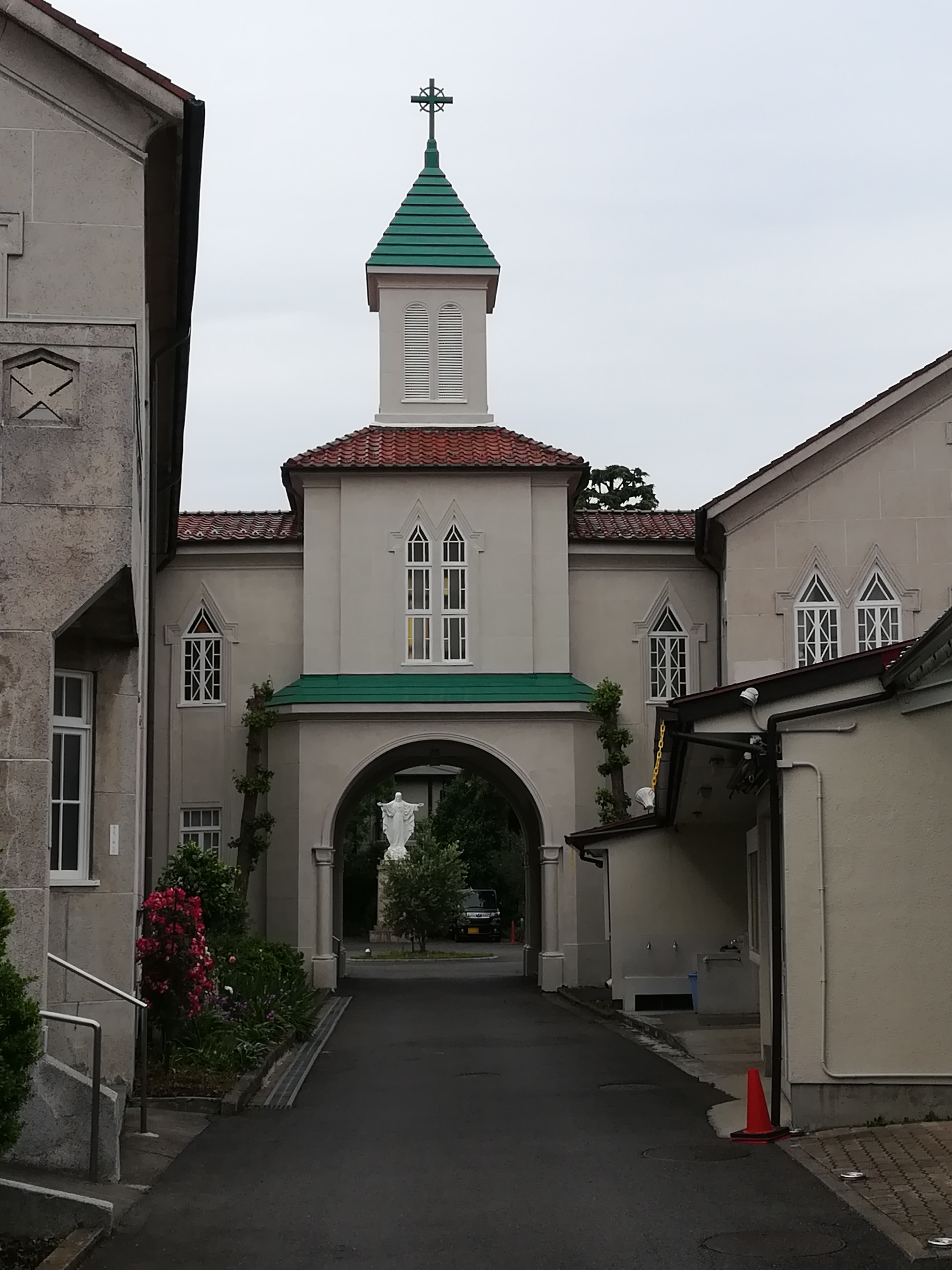 Catholic Tokuden Church.Toyotama-maka Nerima-ku, Tokyo.